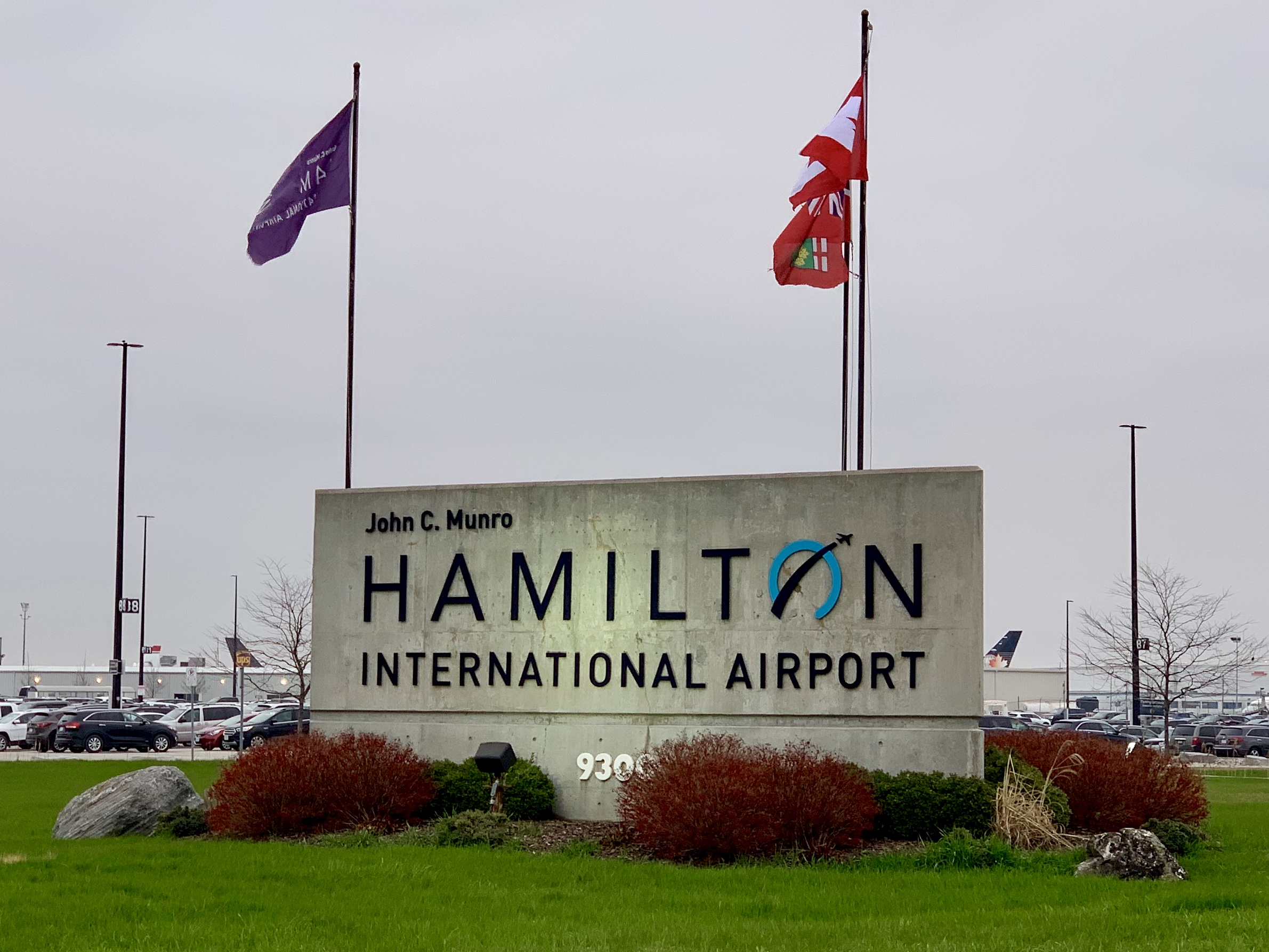 Hamilton International Airport entrance in Ontario, Canada in May 2019